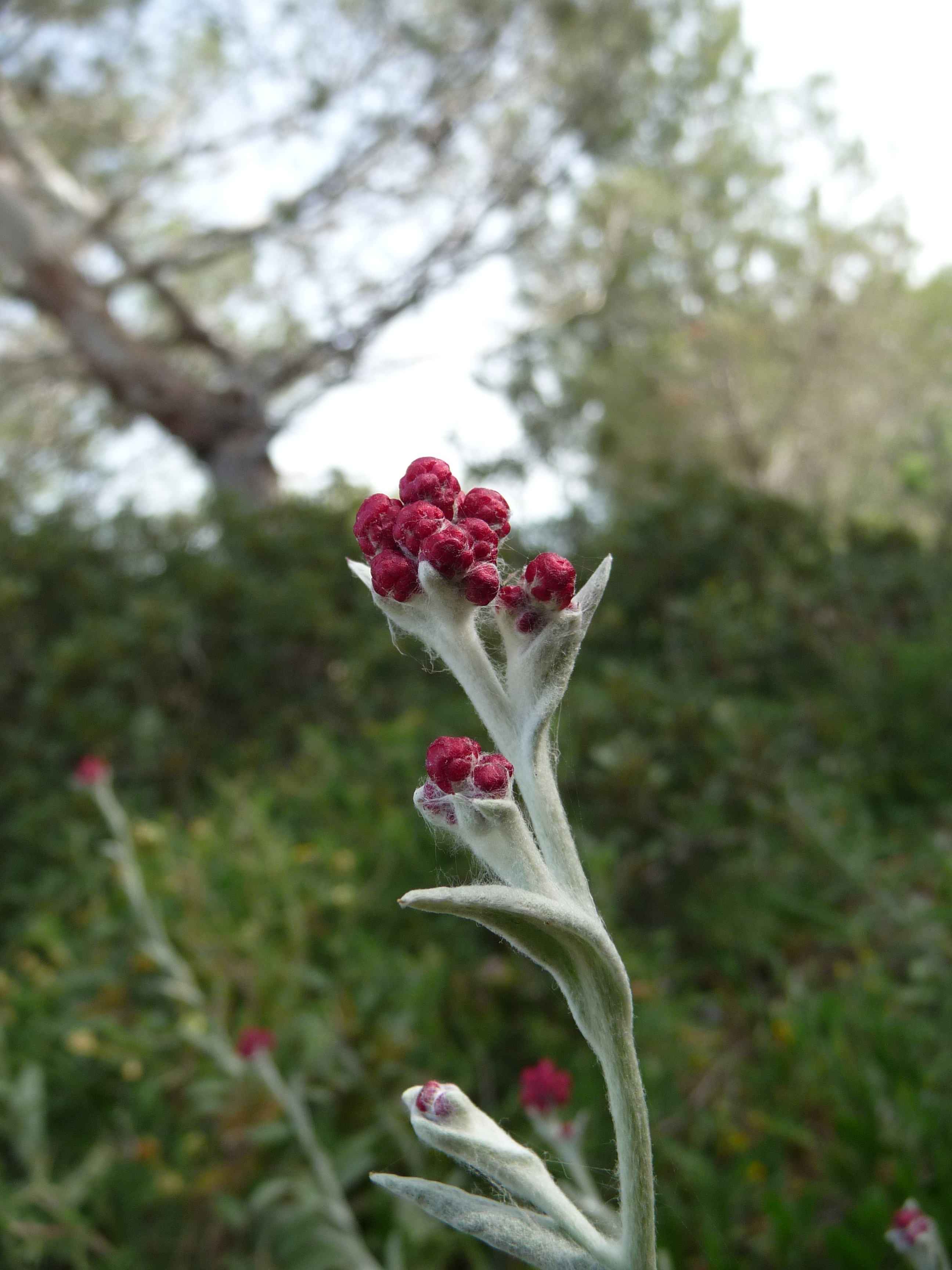 Carmel Park